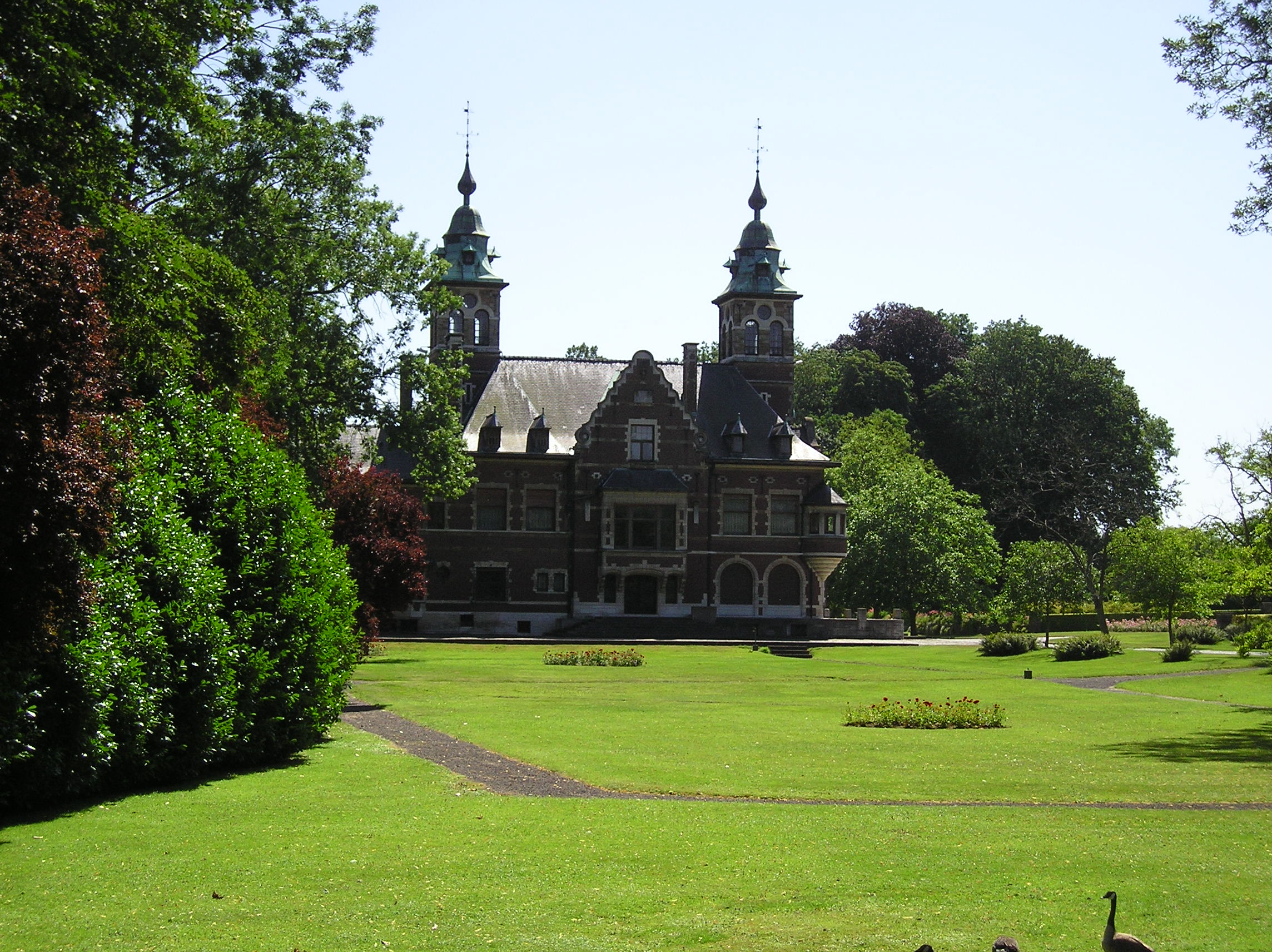 Castle Regelsbrugge in Aalst.